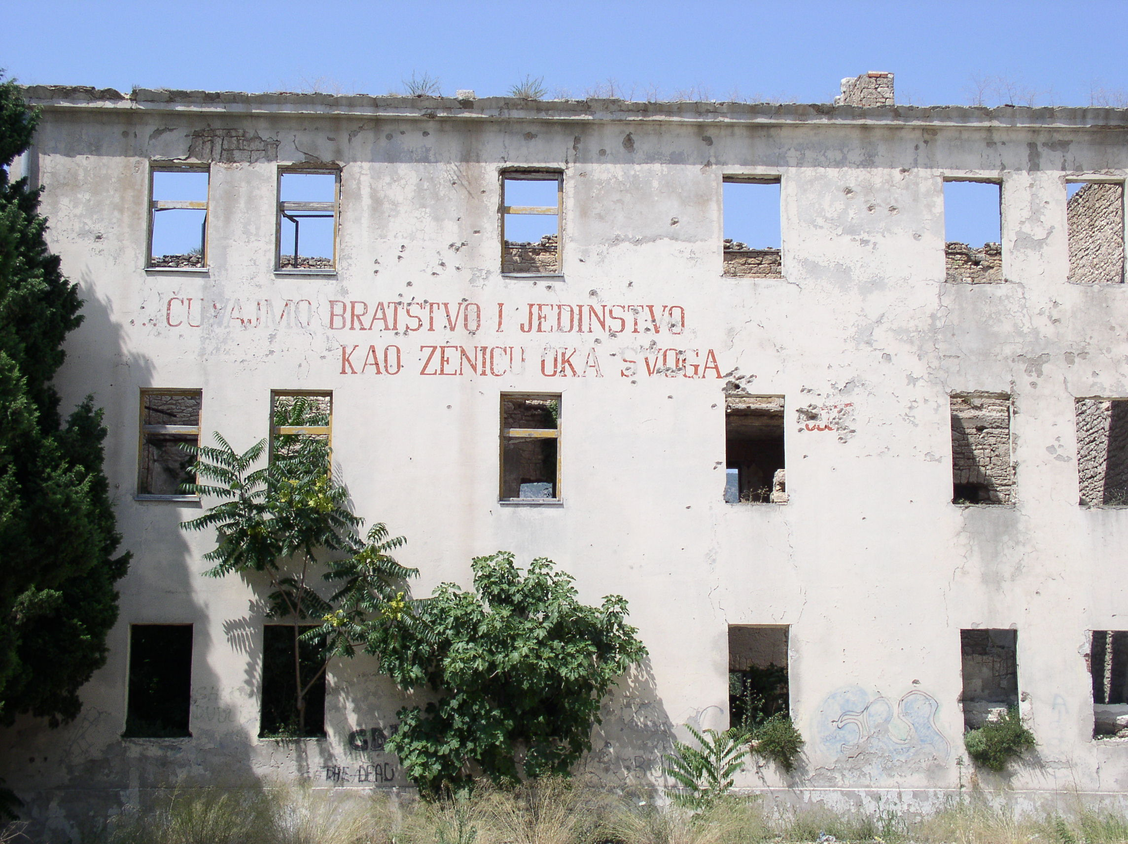 Former barracks of the Yugoslav army in Mostar, inscription says Protect brotherhood and unity like the pupil of your eye, Josip Broz Tito